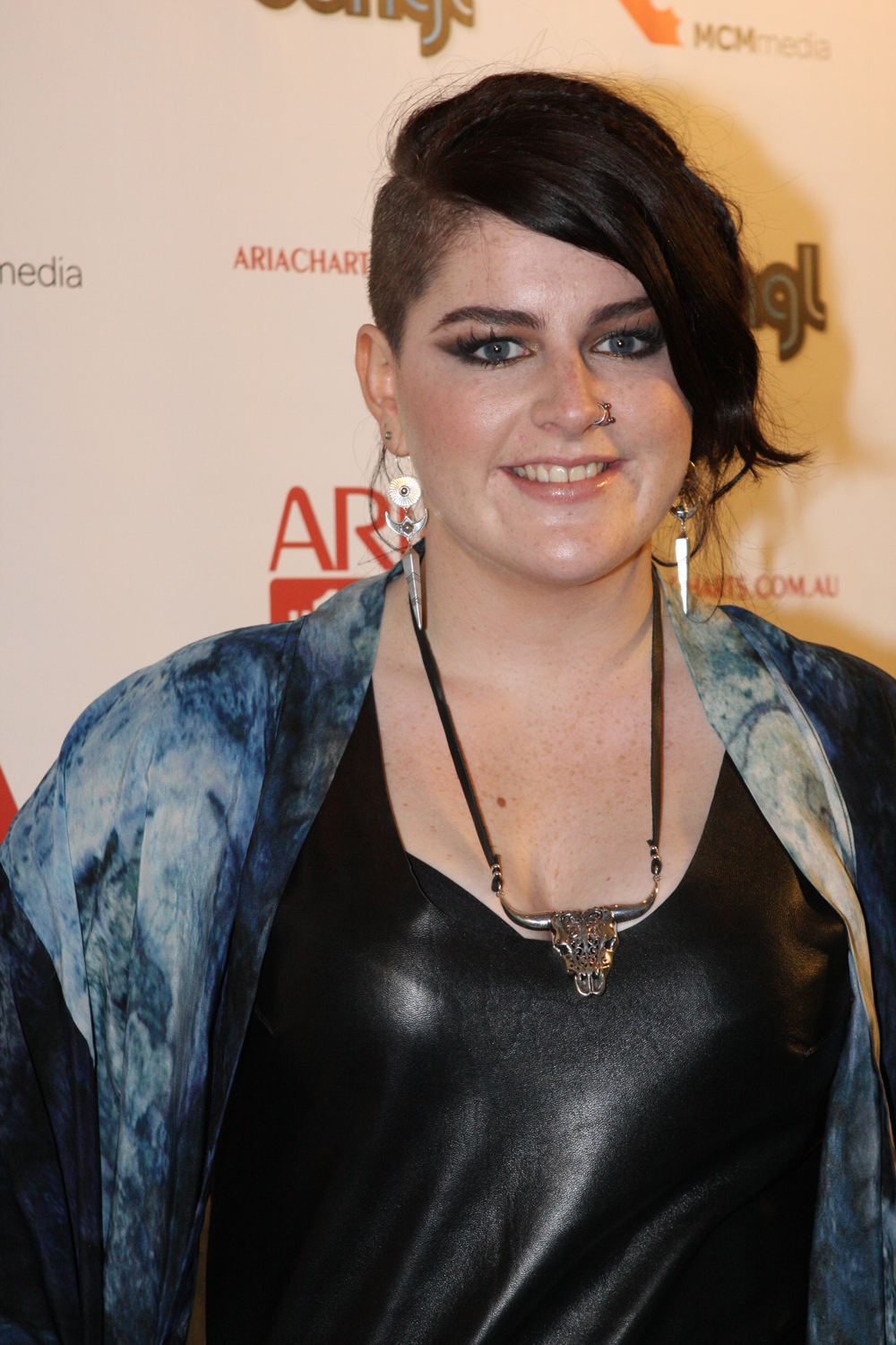 Karise Eden at the ARIA No. 1 Chart Awards in Sydney, Australia.